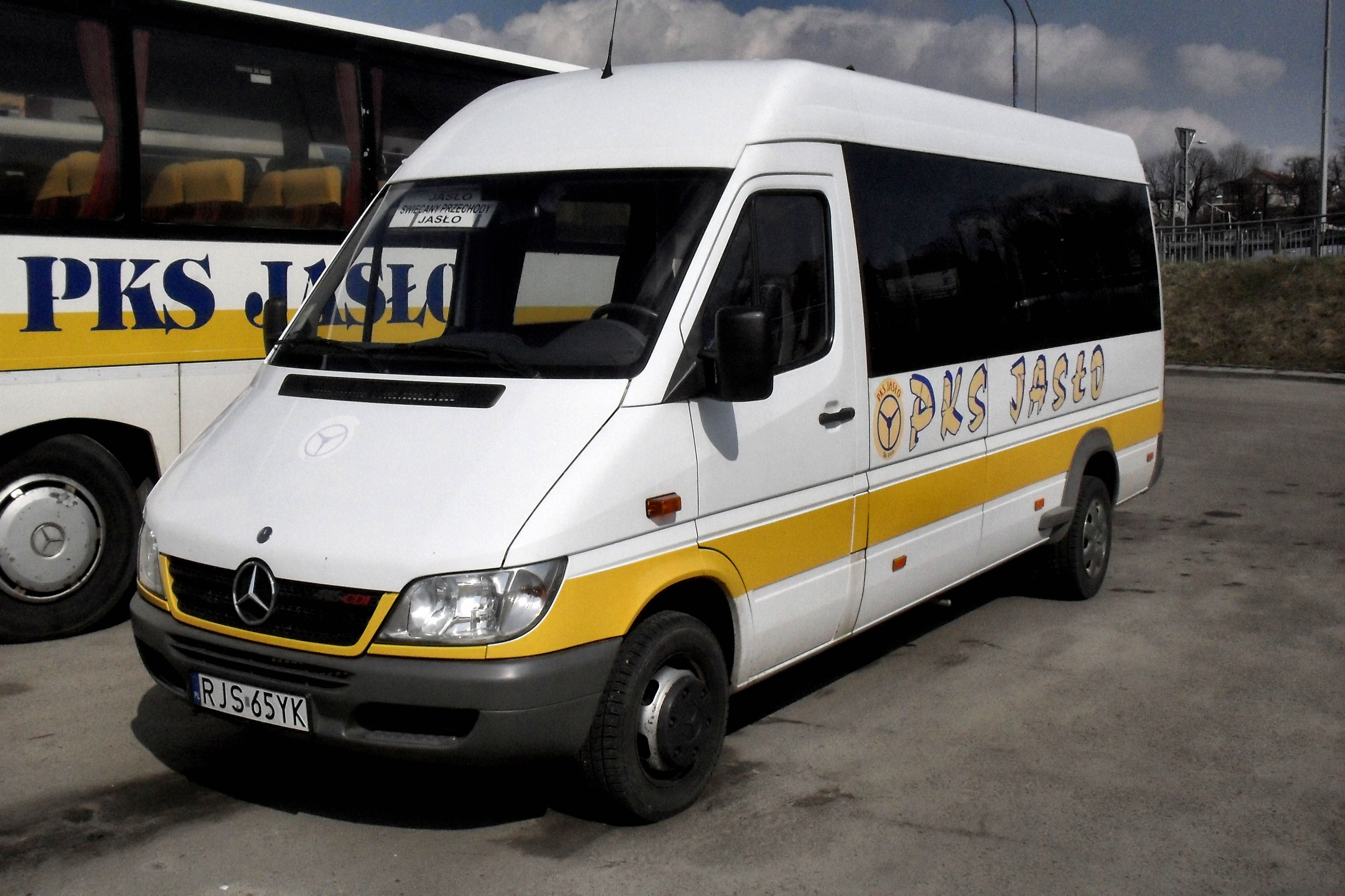 Mercedes-Benz Sprinter 416 CDI used as a bus by PKS Jasło.